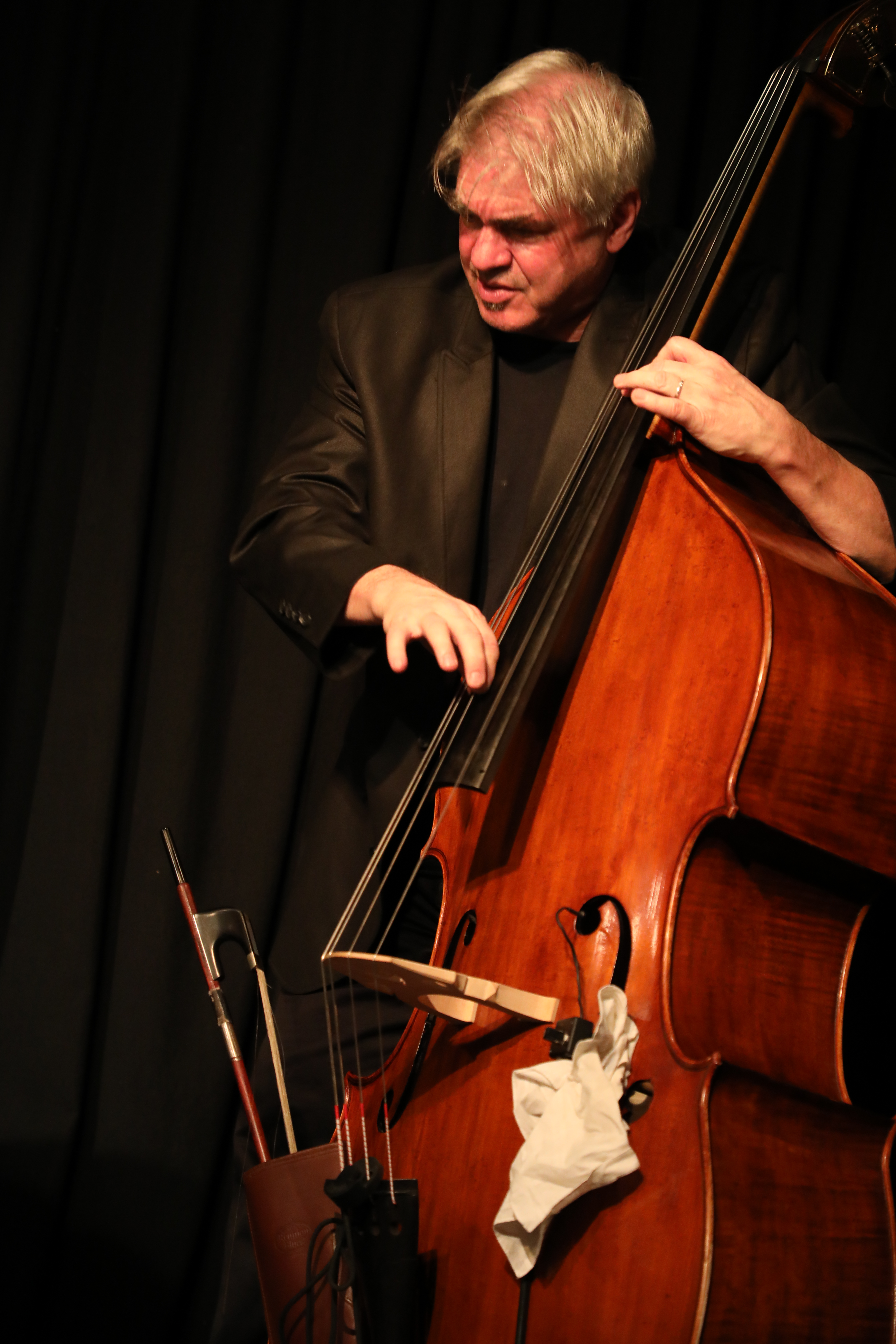 The Fictive Five is the jazz ensemble of composer and saxophone player Larry Ochs. Members are Nate Wooley (tr), Harris Eisenstadt (dr), Pascal Niggenkemper (db) & Ken Filiano (db).